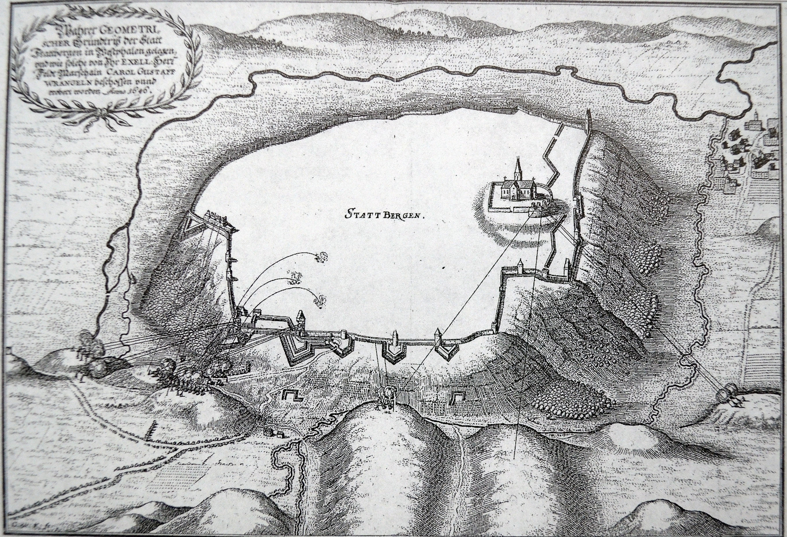 Obermarsberg (damals Stattbergen), 1646, Skizze der Beschießung der Festung